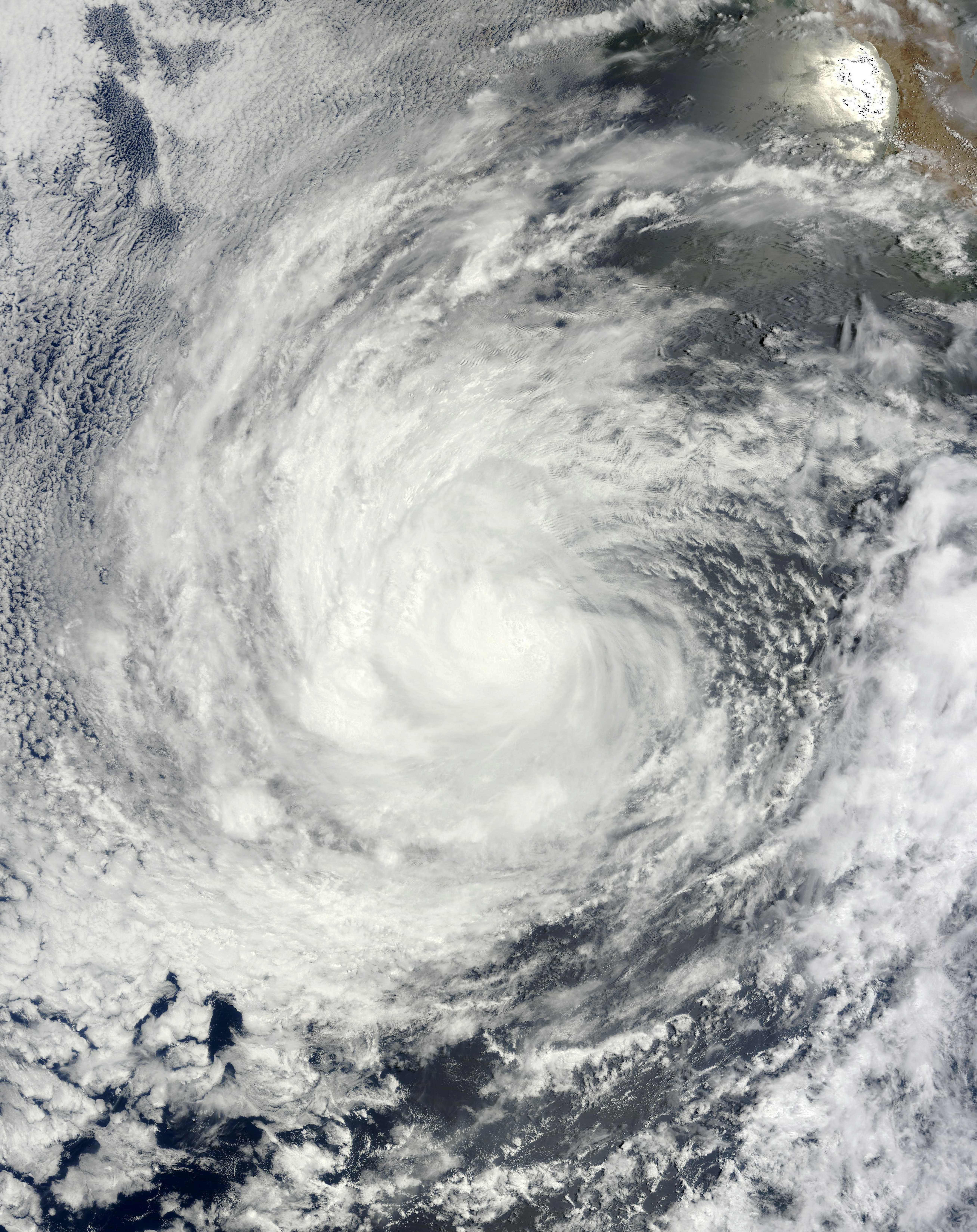 Tropical Storm Cosme on June 26, 2013